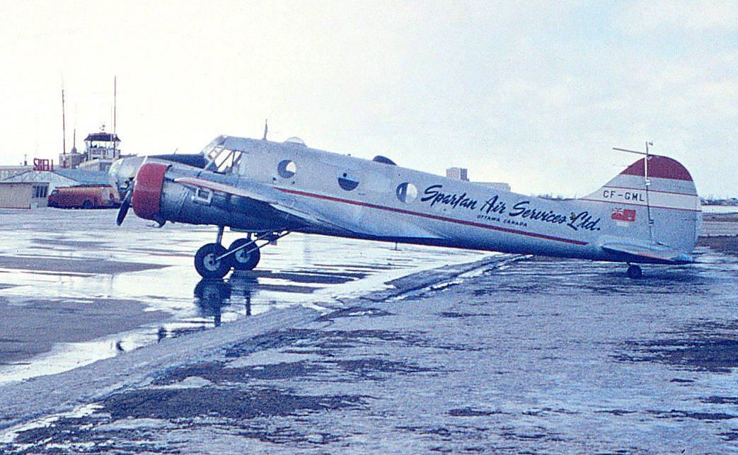 The Anson, used to train many World War 2 multi-engine pilots, is shown here at Edmonton's Municipal Airport around 1959.